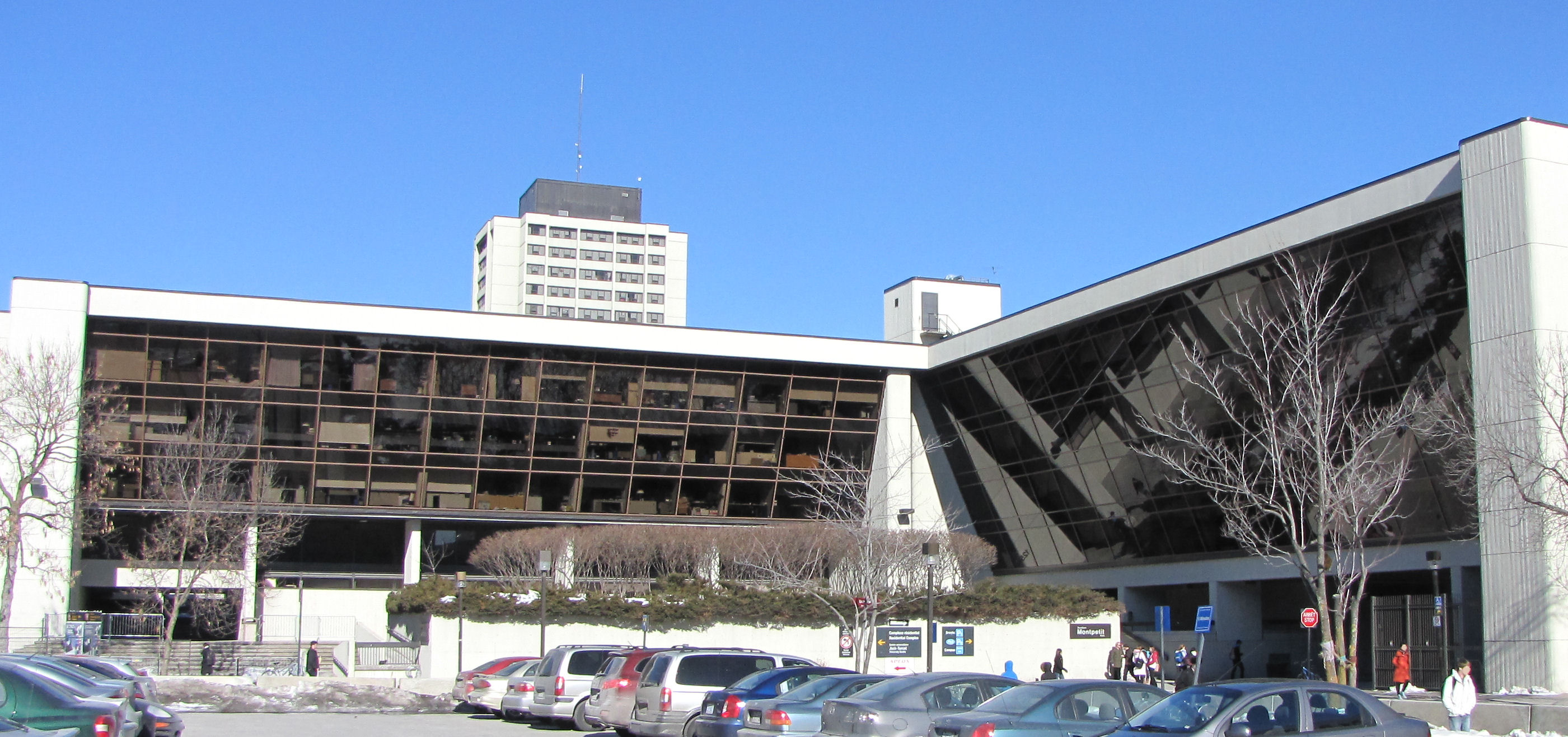 Montpetit Hall, University of Ottawa, Ottawa, Ontario, Canada